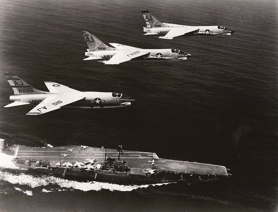 A U.S. Navy Vought RF-8A Crusader (BuNo 146895) of Photographic Reconnaissance Squadron 62 (VFP-62) Det.59 "Fighting Photos" and two F-8C (BuNo 146932 and 145592) of Fighter Squadron 103 (VF-103) "Sluggers" fly over the aircraft carrier USS Forrestal (CVA-59), circa in August 1962. Both squadrons were assigned to Carrier Air Group Eight (CVG-8) aboard the Forrestal for a deployment to the Mediterranean Sea from 3 August 1962 to 2 March 1962. The F-8Cs are armed with AIM-9B Sidewinder missiles.